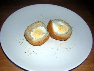 Scotch egg.